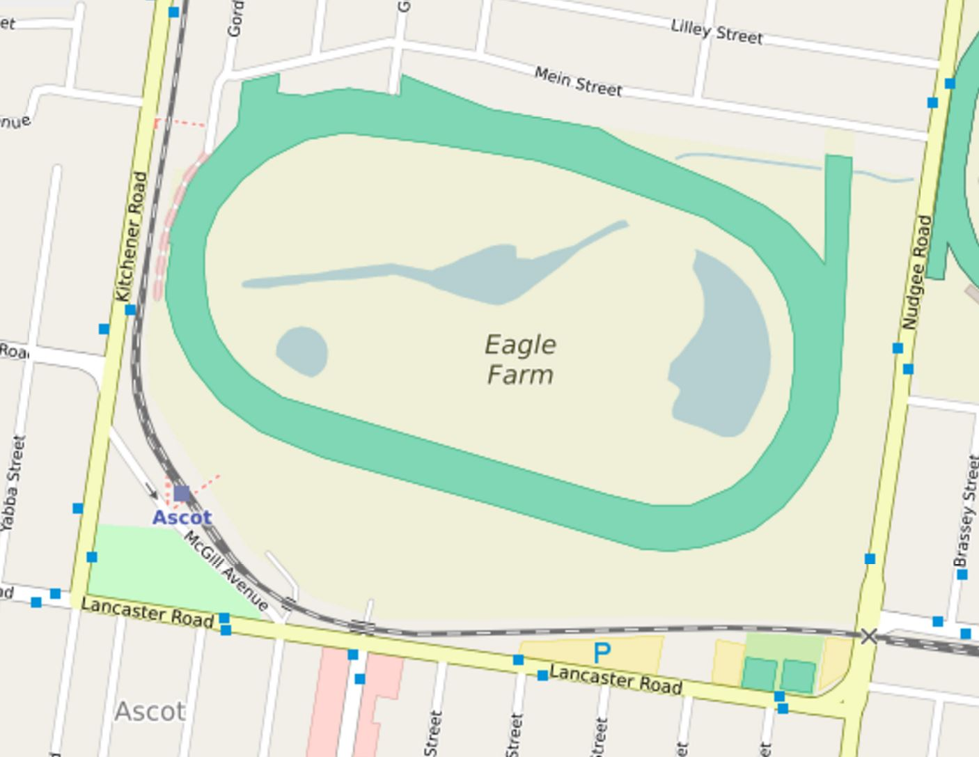 Open Street Map - Eagle Farm Racecourse and Ascot railway station